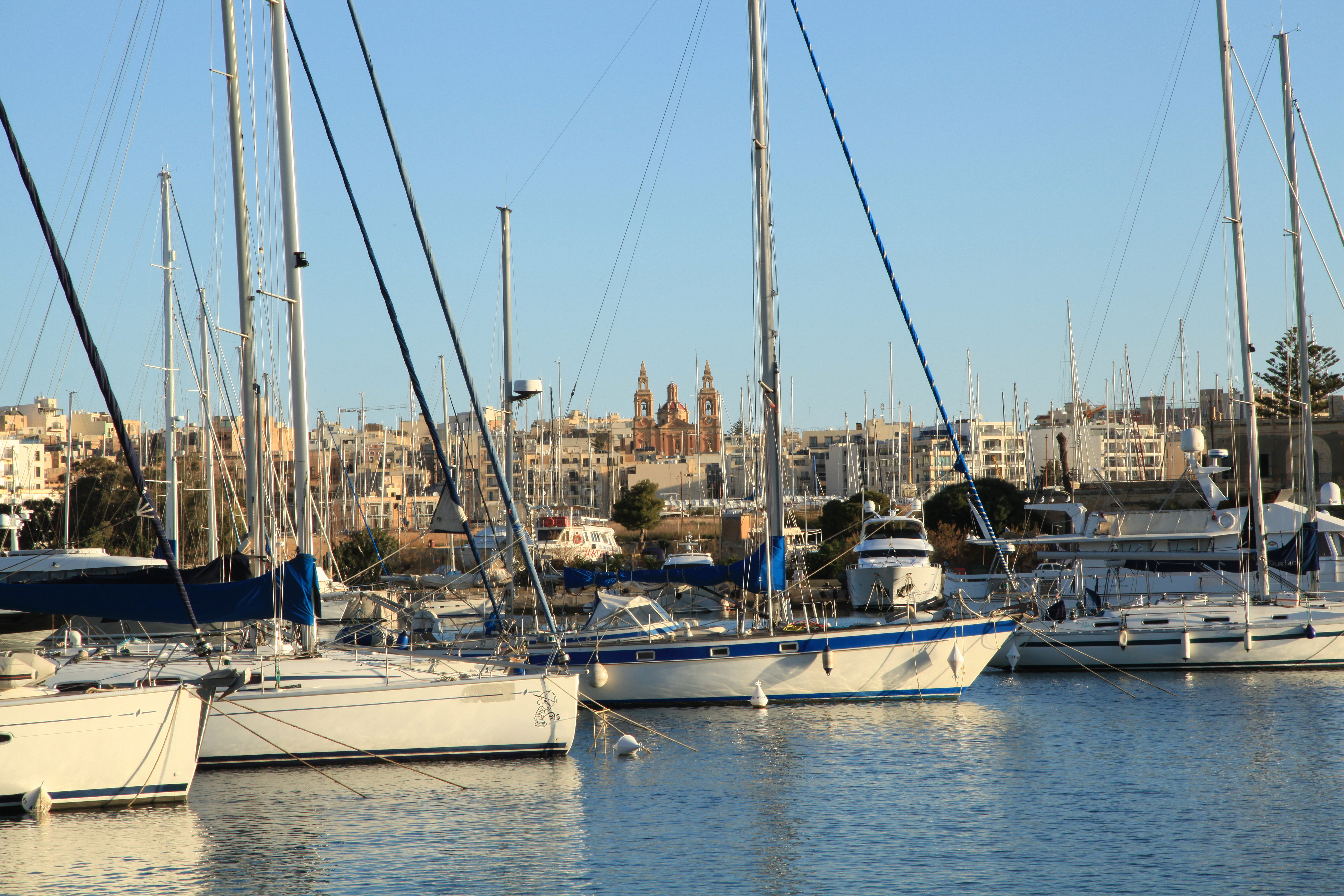 View from Ix-Xatt Ta' Xbiex in Ta' Xbiex to the Manoel Island Yacht Marina in Gżira, Malta